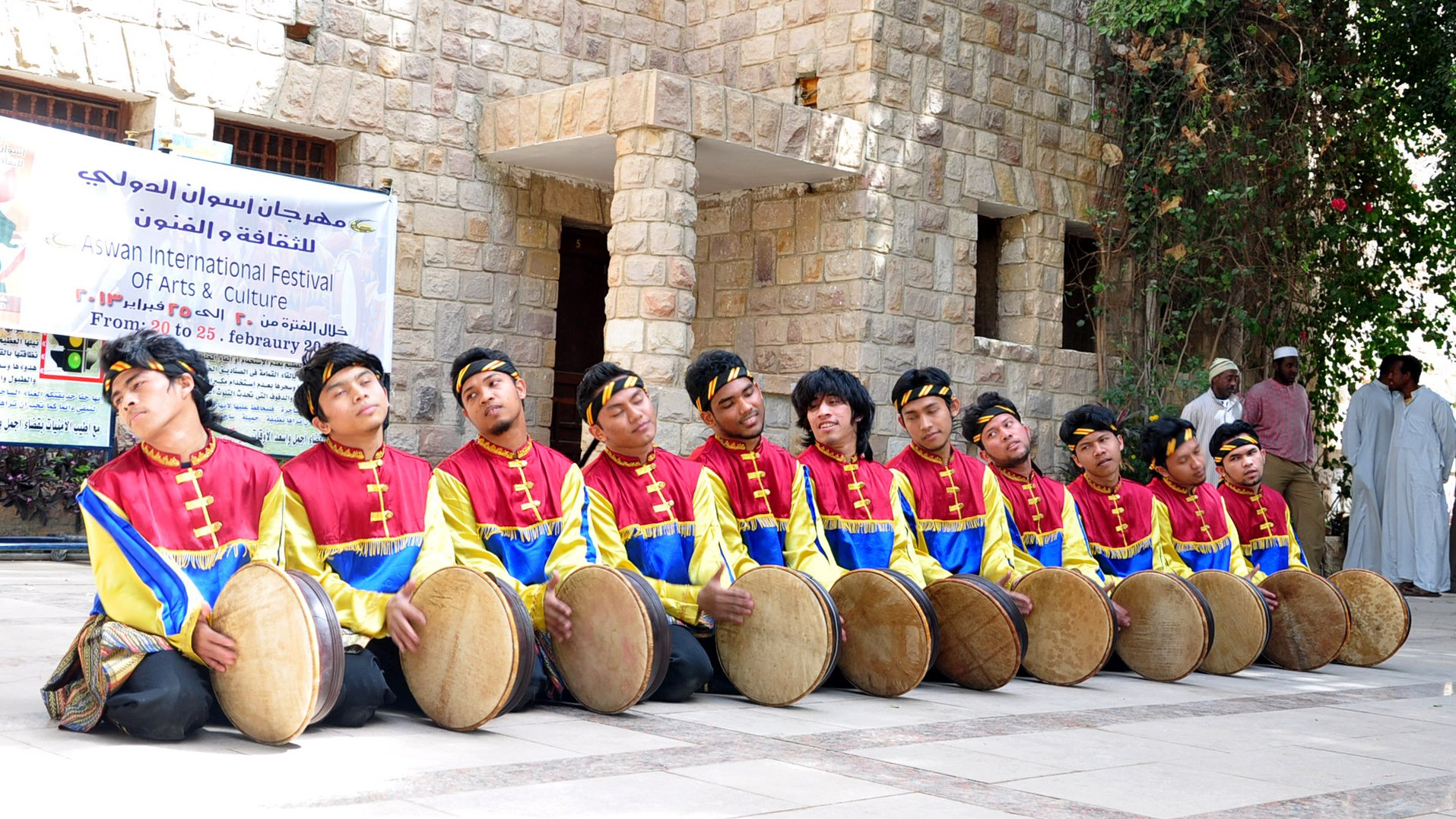 Rapa'i Geleng Dance in Egypt